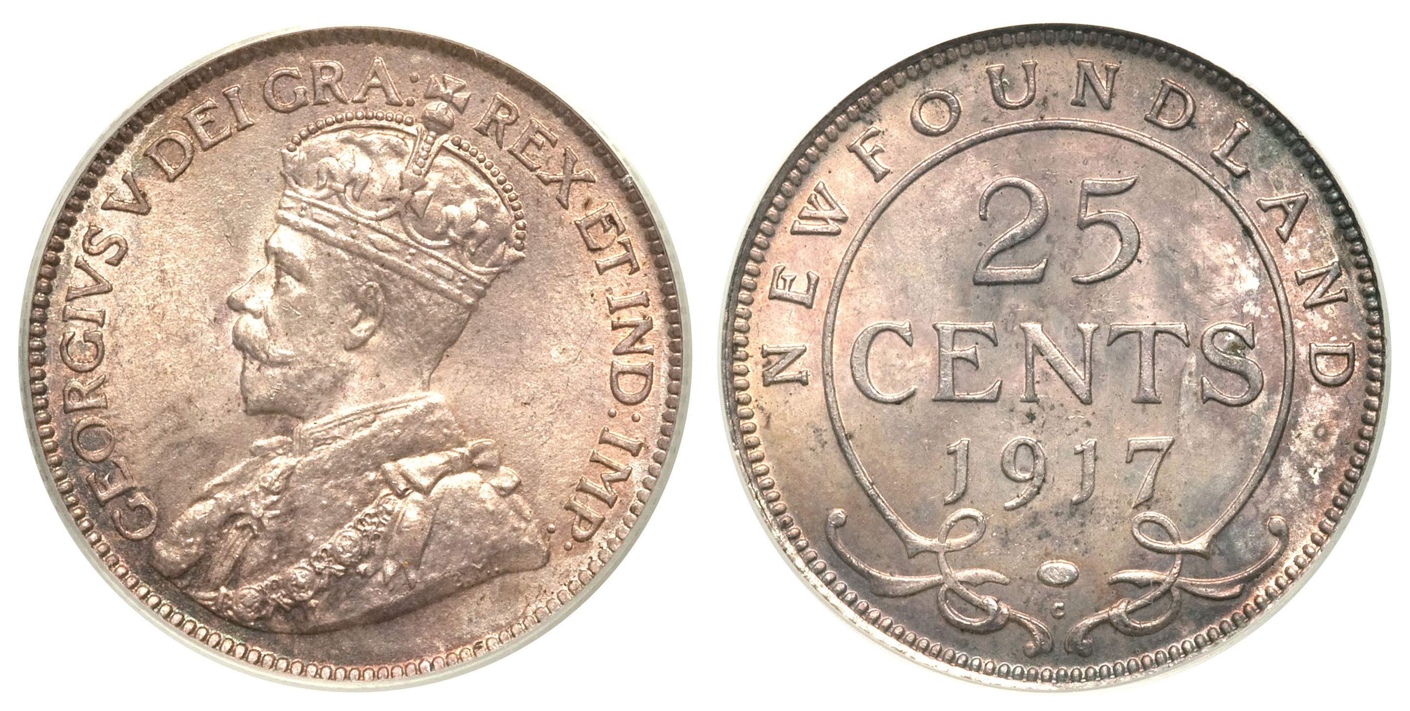 Canada Newfoundland George V 25 Cents 1917C(3012-23553)